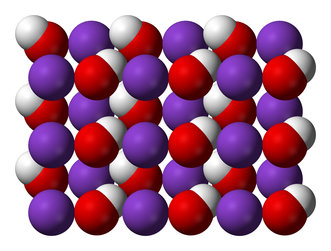 Space-filling model of part of the crystal structure of potassium hydroxide, KOH. Crystal structure data from James A. Ibers, Junji Kumamoto, and Roberiikt G. Snyder (1960). "Structure of Potassium Hydroxide: An X-Ray and Infrared Study". J. Chem. Phys. 33 (4): 1164-1170. Image generated in Accelrys DS Visualizer.